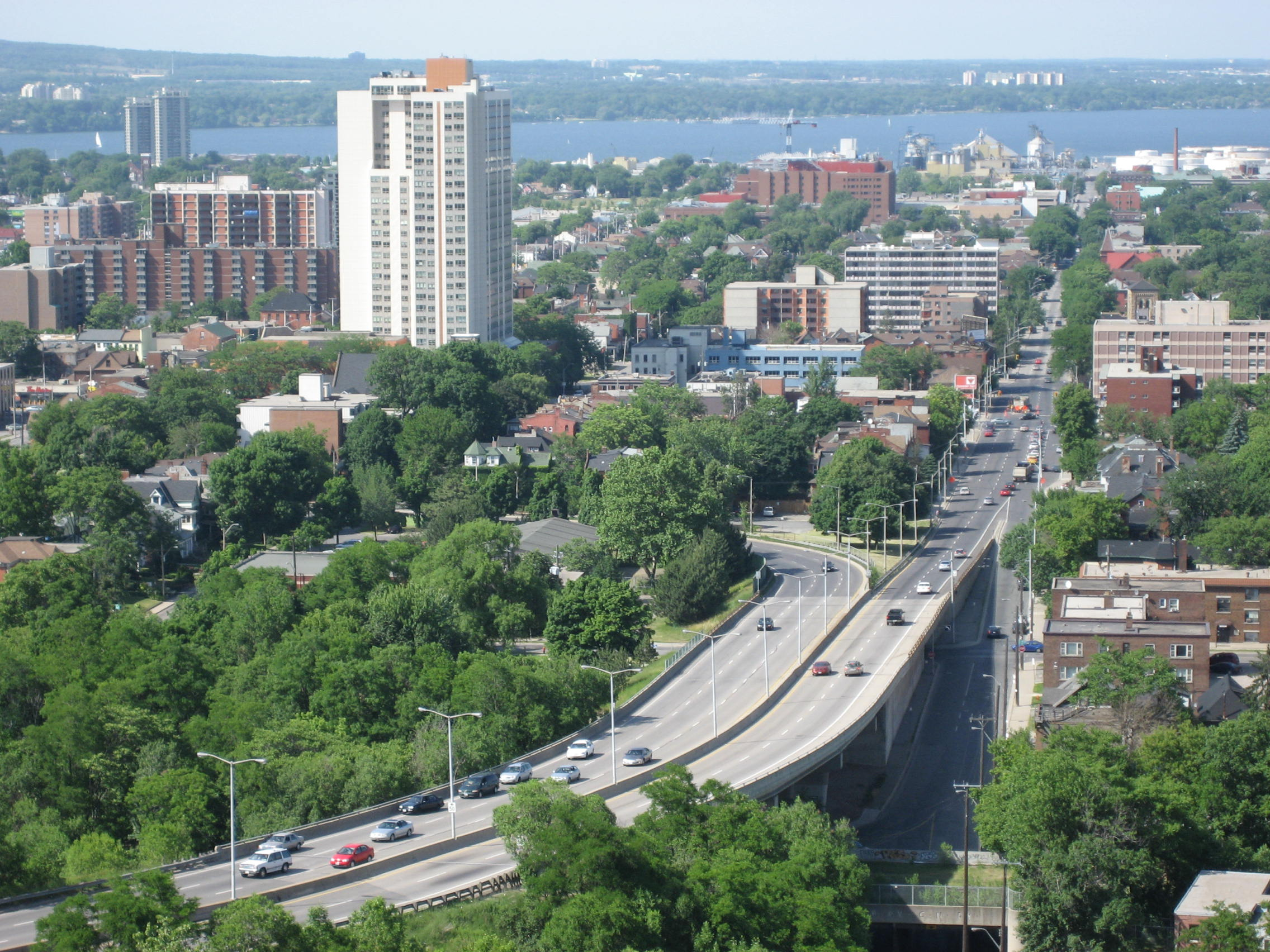 Victoria Avenue, Mountain Access Road, downtown Hamilton, Ontario